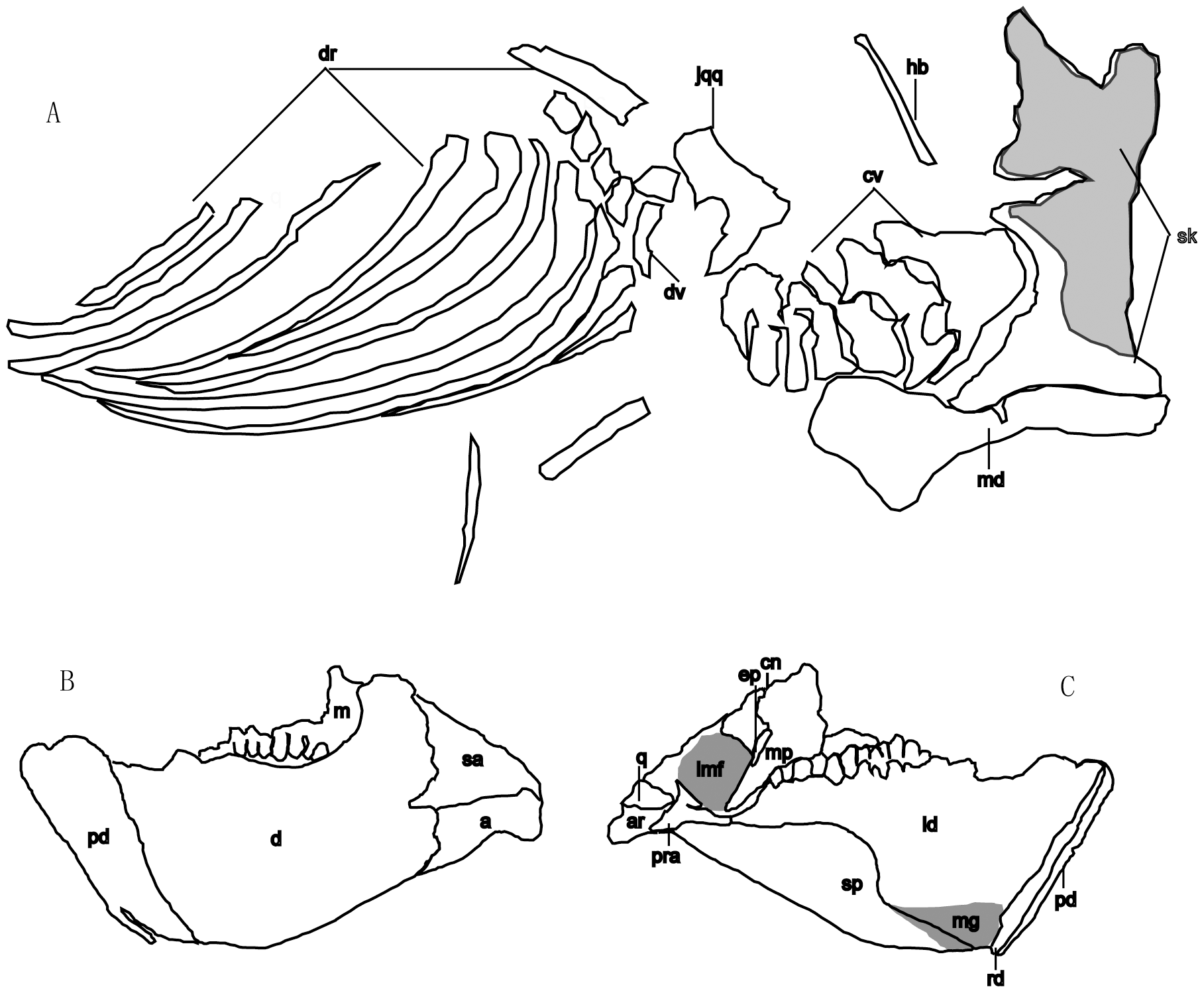 Zhuchengceratops inexpectus holotype (ZCDM V0015).